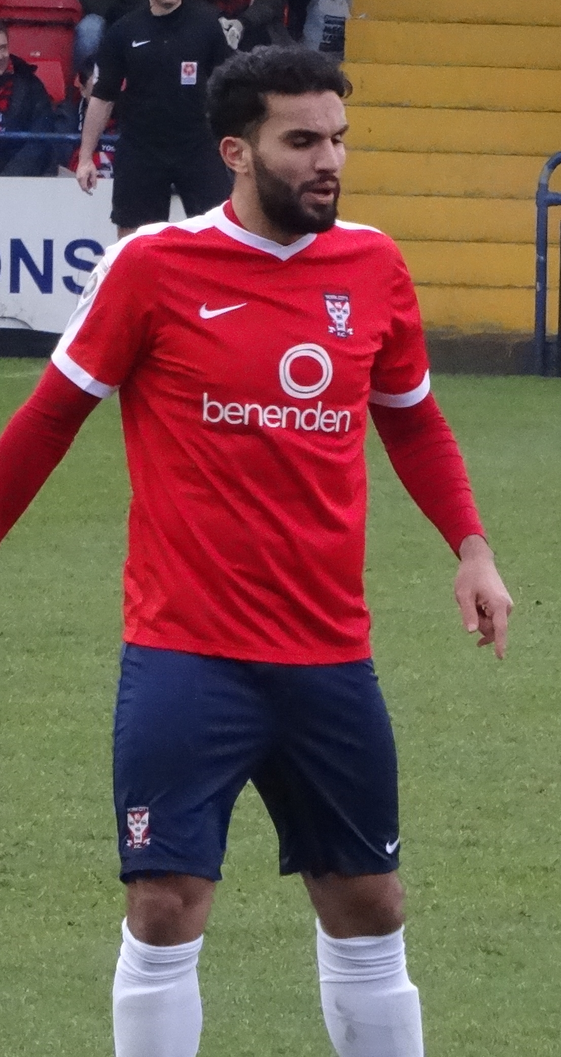 Hamza Bencherif playing for York City against Maidstone United at Bootham Crescent, York on 11 February 2017